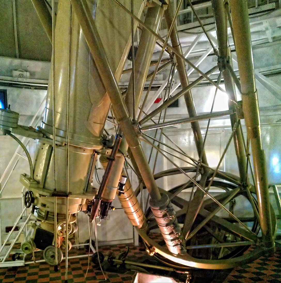 This is the largest conventional refracting telescope in Britain and 7th largest in the world. The lens has a diameter of 28 inches (72cm). Built by Sir Howard Grubb, the first observations were made in 1893 with an eyepiece giving a magnification of 670 times. The 28-inch telescope replaced a smaller refractor by Merz. The same mount was used but the dome was converted from a drum to an onion shape in order to make room for the larger instrument. The dome was originally made of steel and covered with papier mâché. Today the dome has a fibre-glass cover. The design of the mount and dome enable the telescope to be moved to view almost any part of the sky. The recent addition of a computer-aided guidance system makes it easier to use.